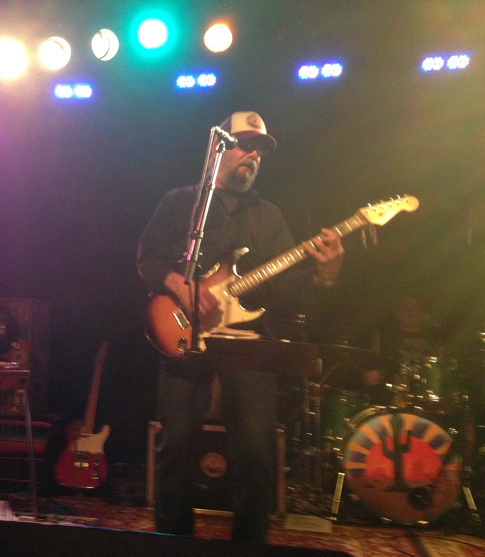 Michael Falzarano performing with the New Riders of the Purple Sage at Bottom Lounge in Chicago on July 3, 2015